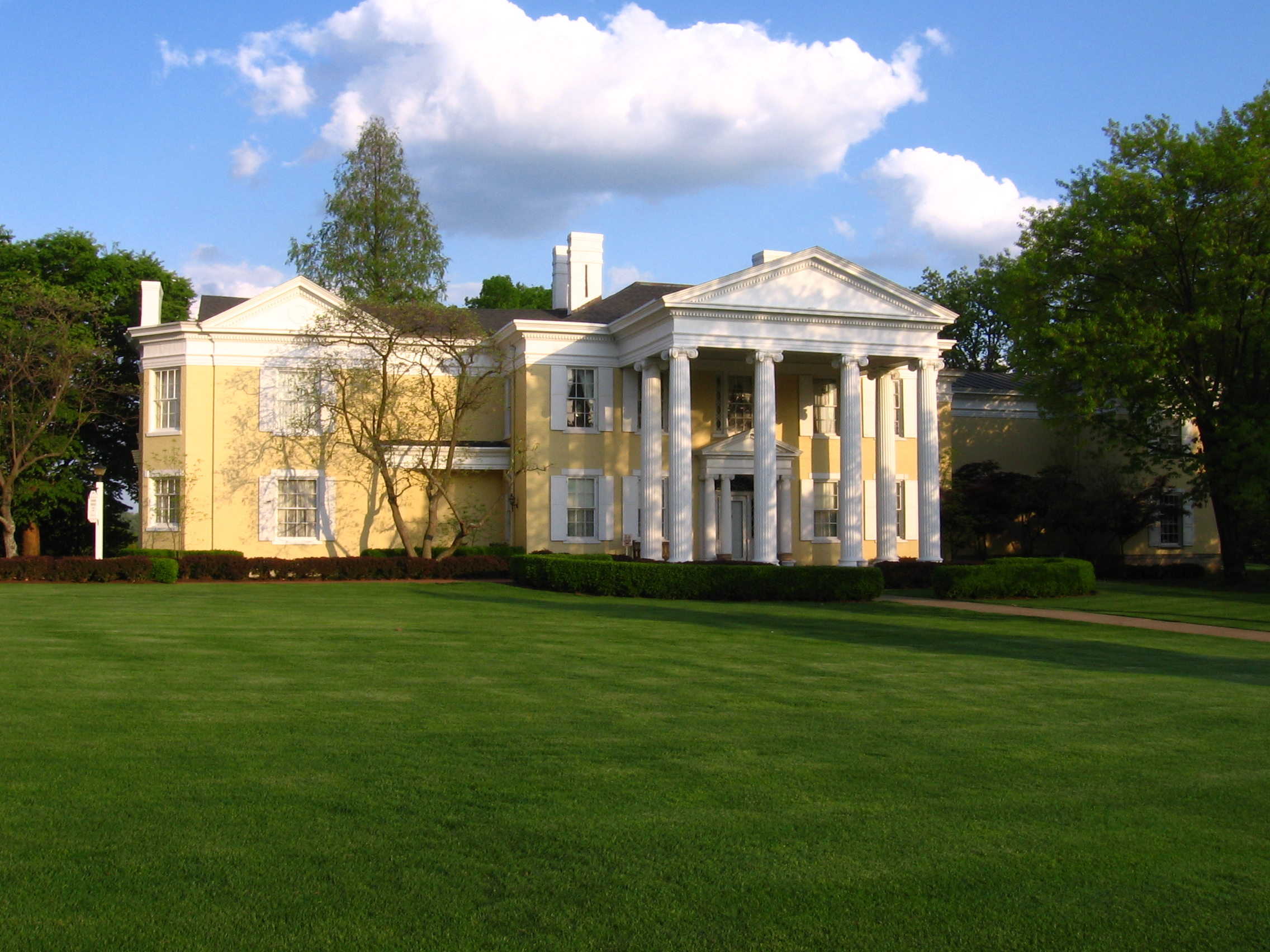 The Oglebay Institute Mansion Museum.